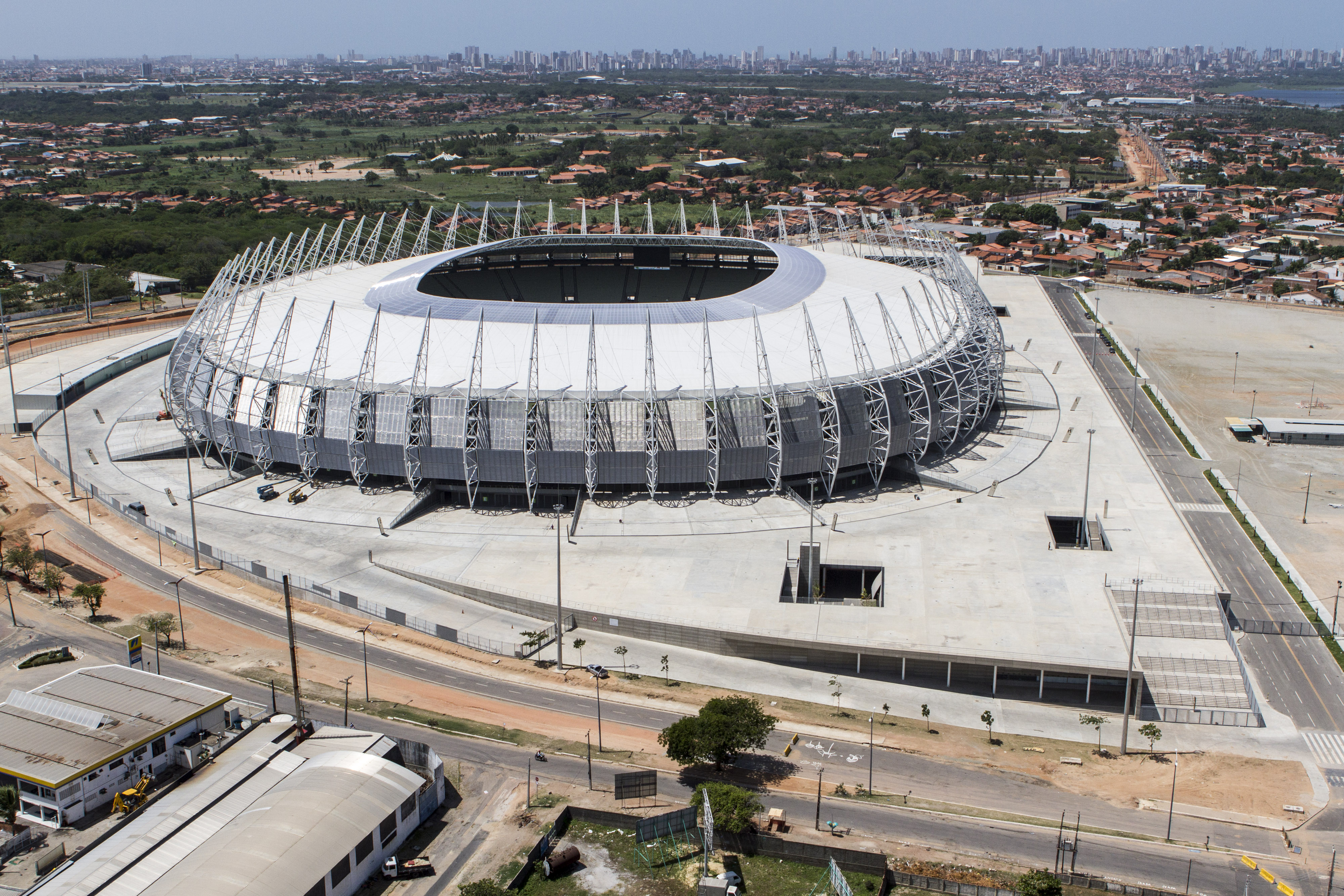 Fortaleza Arena - March 2013